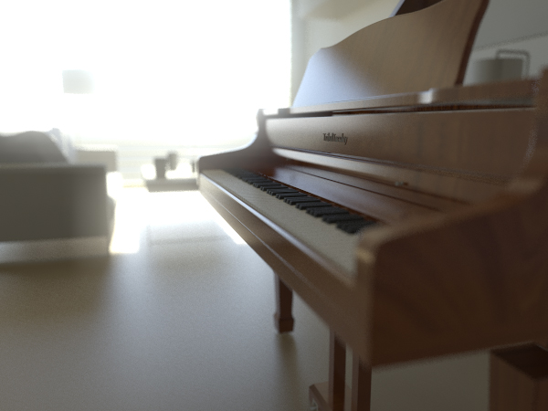 A computer generated render of a room. The render displays depth of field, bloom and glow. Rendered using 3DS Max 2011 and mental ray.